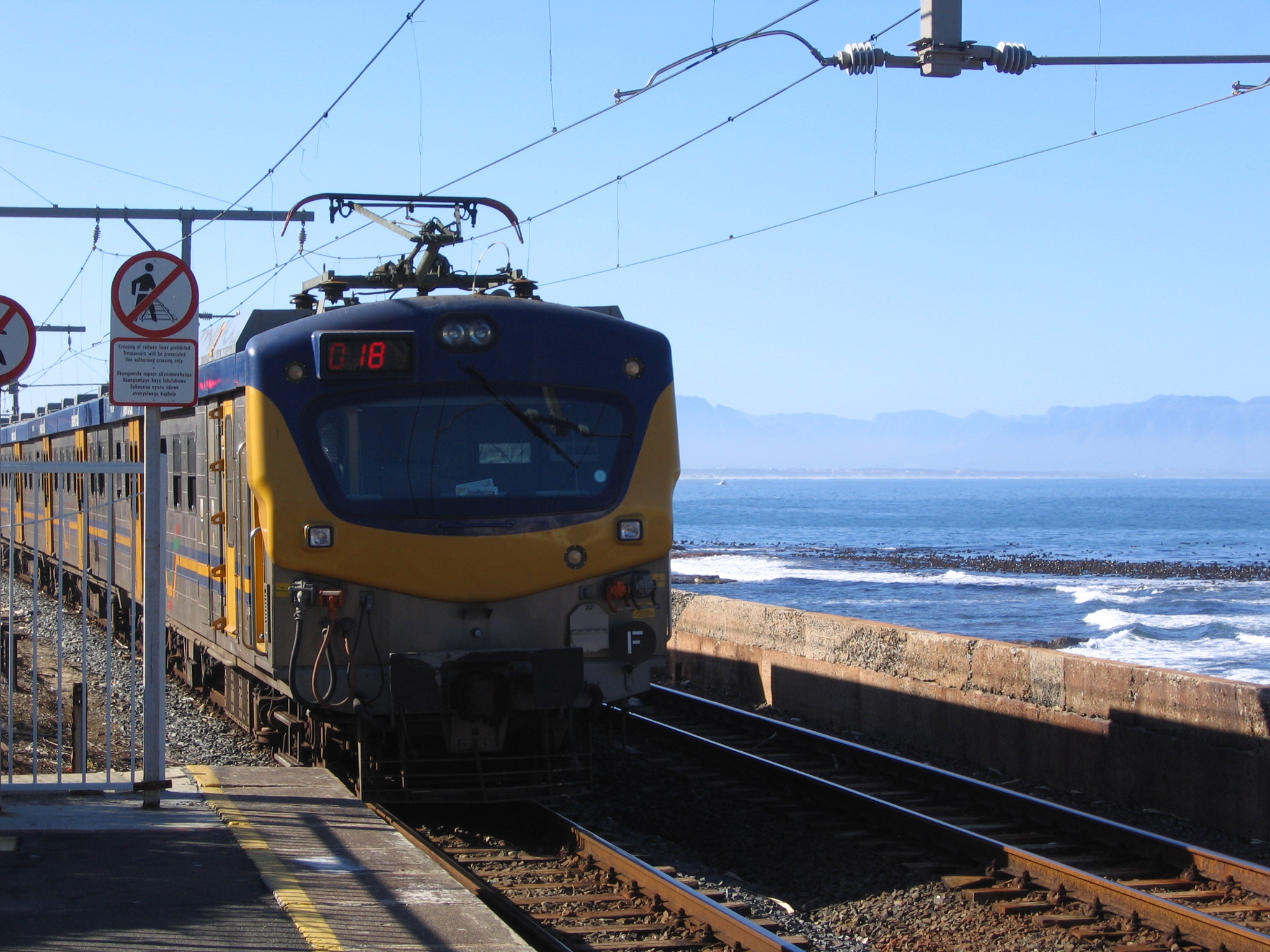 Kalk Bay station, Cape Town, South Africa. A shot of a departing commuter train.